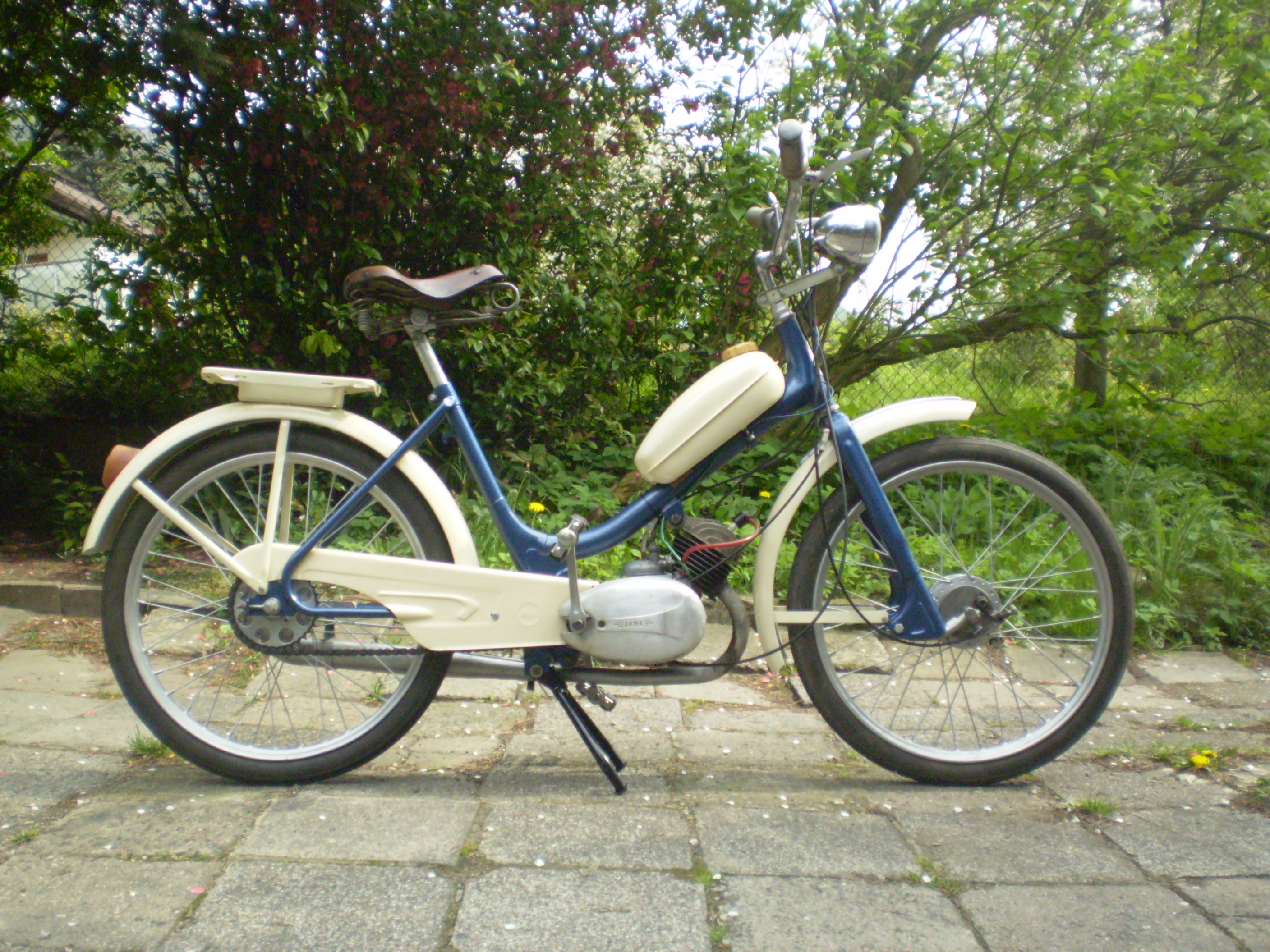 Moped Stadion S11